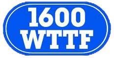 WTTF logo used from 1998 until 2008.